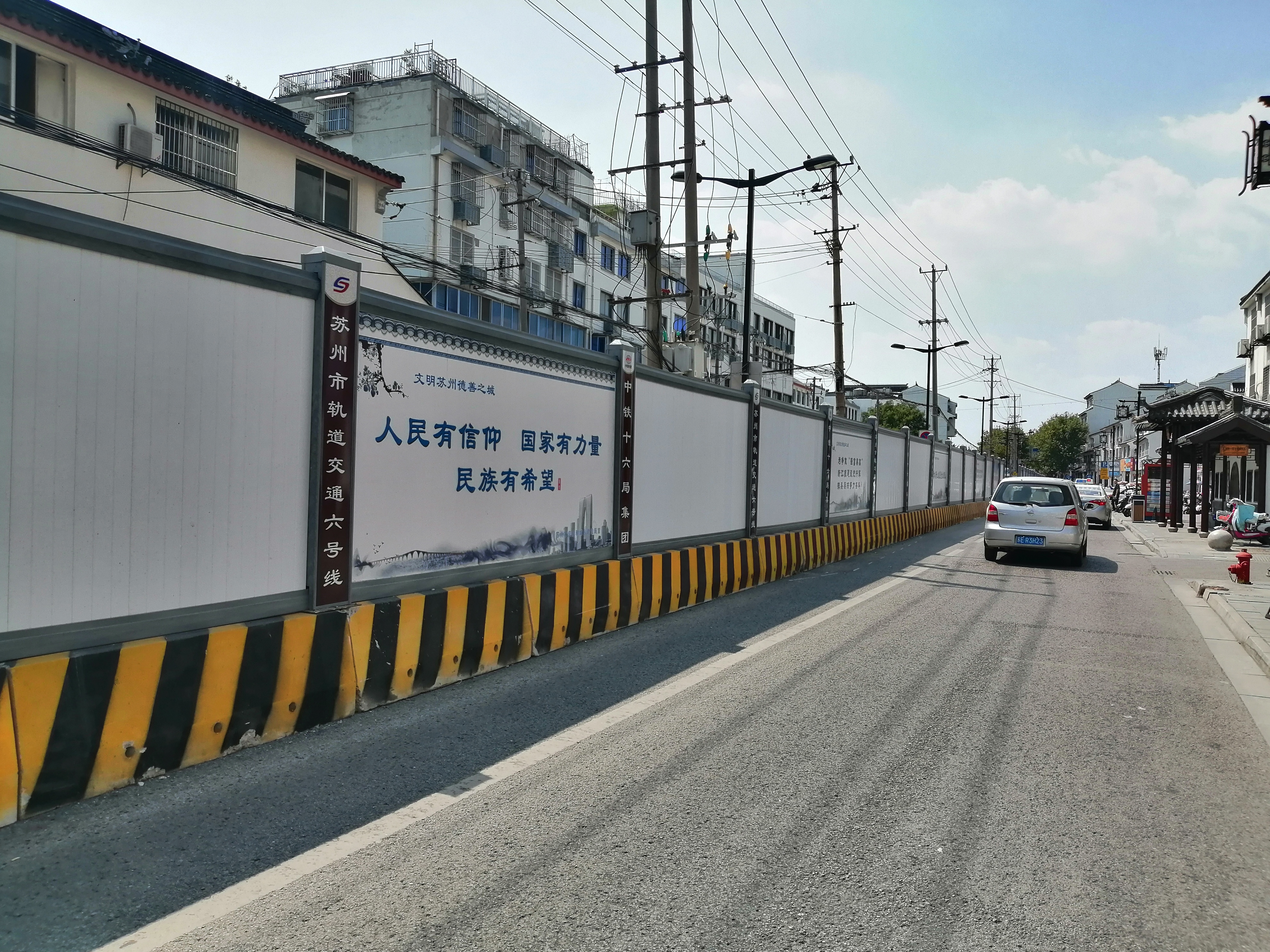 A construction site of Line 6, Suzhou Rail Transit, near the First Affiliated Hospital of Soochow University. 中文（中国大陆）: 苏州轨道交通6号线工地，位于苏大附一院附近